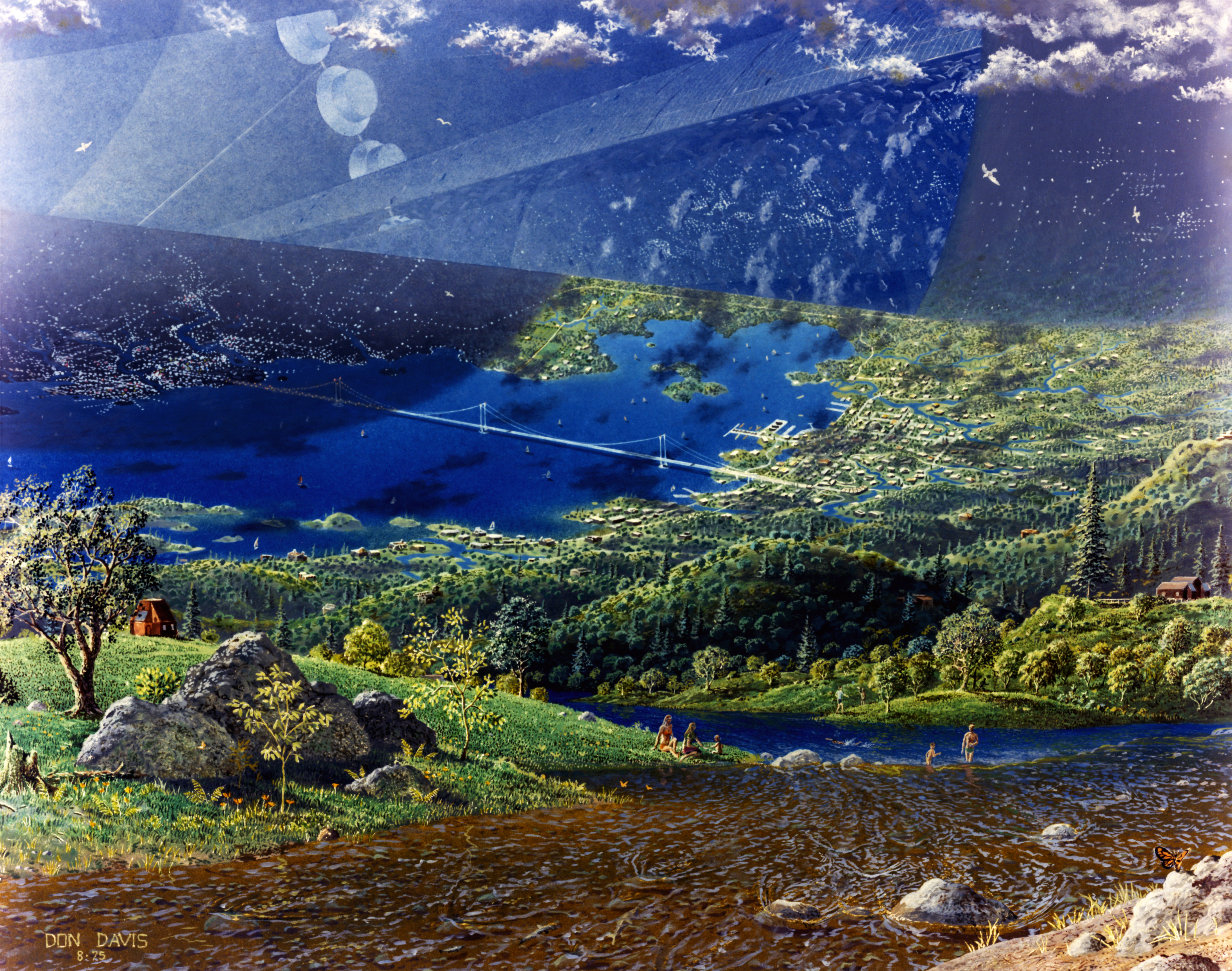 Island Three cylindrical space habitat, "Endcap view with suspension bridge".